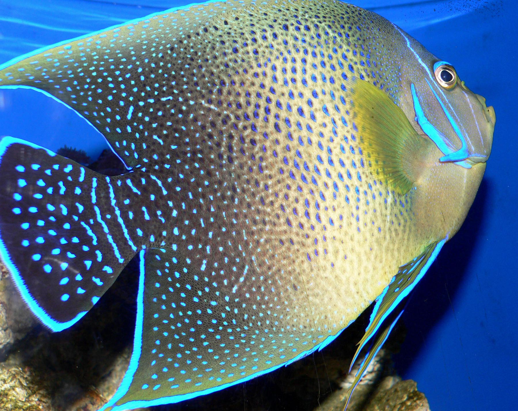 Photo of Pomacanthus semicirculatus (semicircle angelfish) at the Steinhart Aquarium in San Francisco